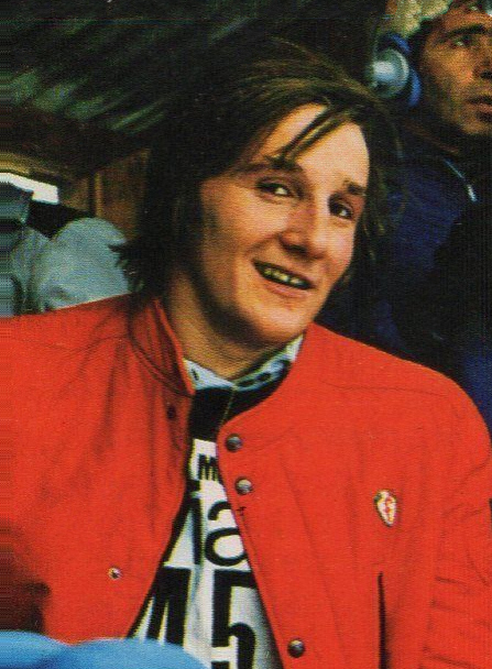 FIGURINA PANINI CAMPIONI DELLO SPORT ANNO 1973/74 N. 341 SPORT INVERNALI